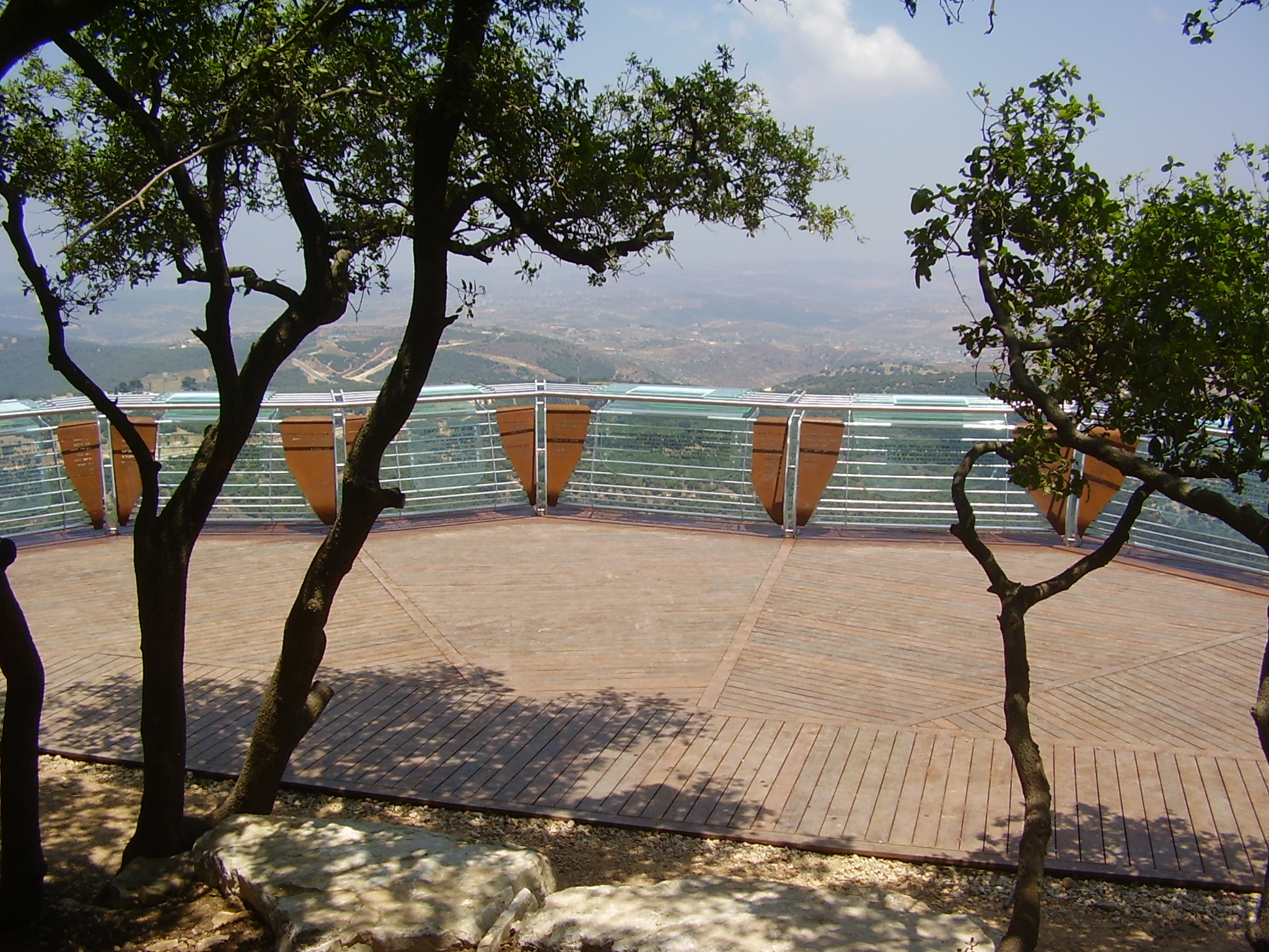 mt. adir lookout in upper galilee המצפור לחללי נמלחמת לבנון השנייה בהר אדיר